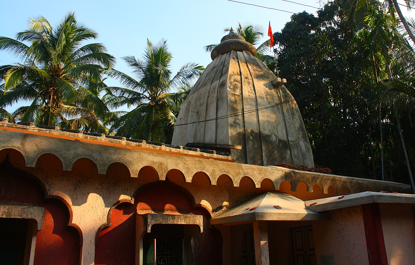 Photo taken by Deepak Chari (Username Bartsson) on his Canon DSLR D1000 camera.